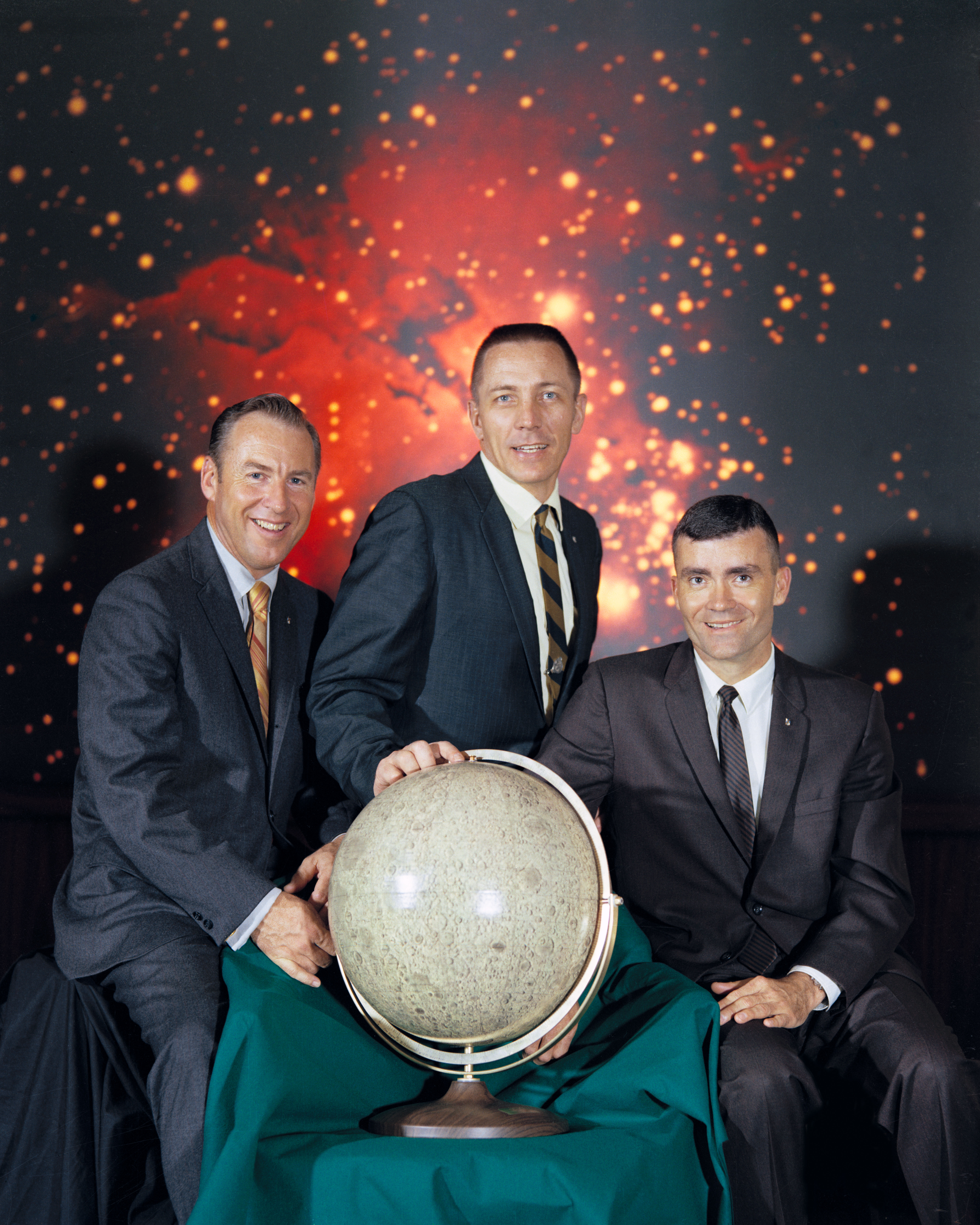 The actual Apollo 13 lunar landing mission prime crew from left to right are: Commander, James A. Lovell Jr., Command Module pilot, John L. Swigert Jr.and Lunar Module pilot, Fred W. Haise Jr.The original Command Module pilot for this mission was Thomas "Ken" Mattingly Jr. but due to exposure to German measles he was replaced by his backup, Command Module pilot, John L. "Jack" Swigert Jr.